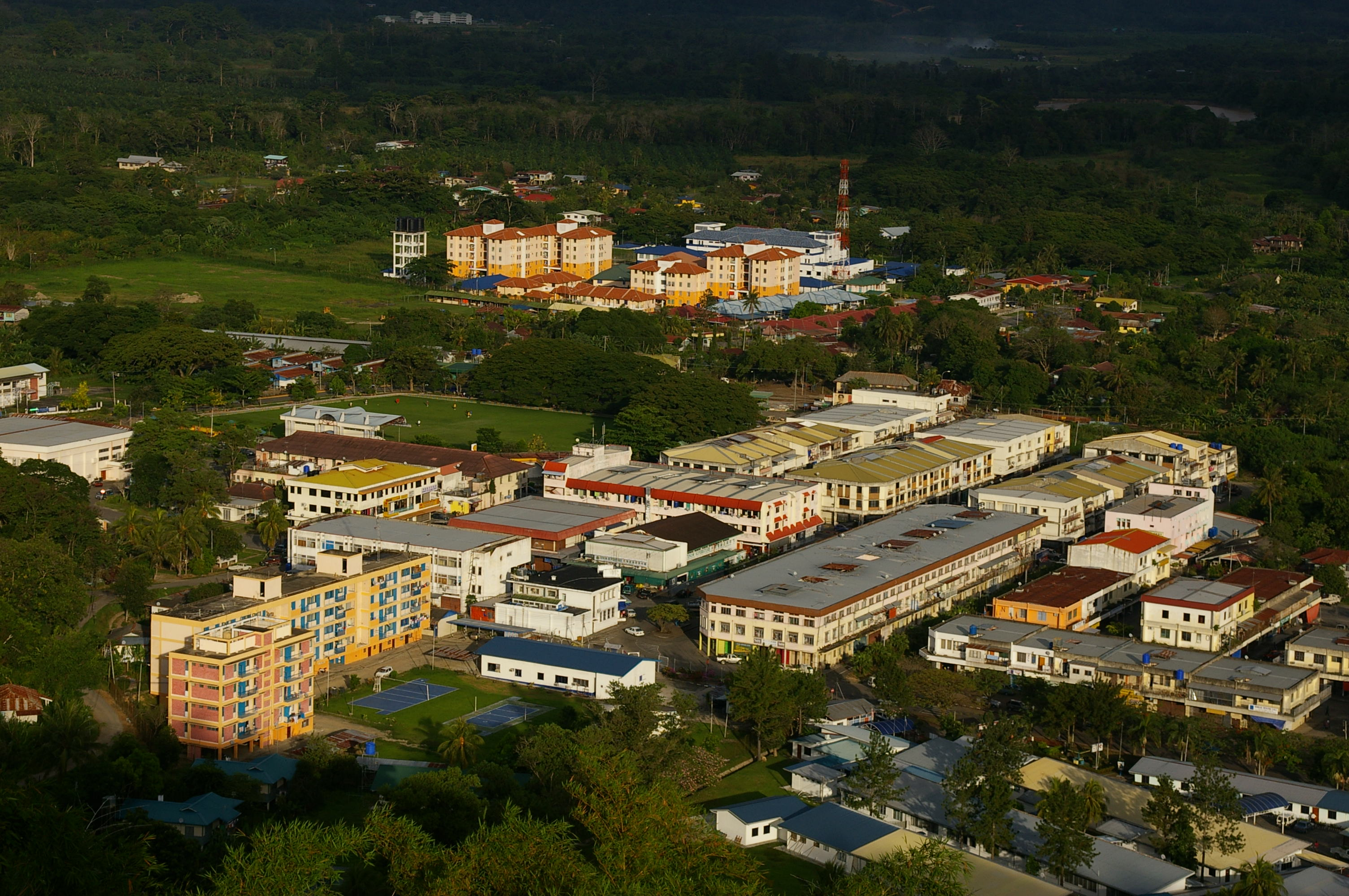 Town centre of Tenom, Sabah, Malaysia. Taken by myself (John McCandless) March 21, 2006, from the Perkasa Hotel, Tenom. To go in the Tenom article.